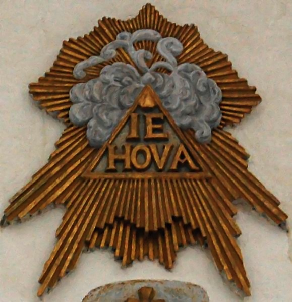 Image of the divine name Iehova printed on Sør-Fron church in Norway